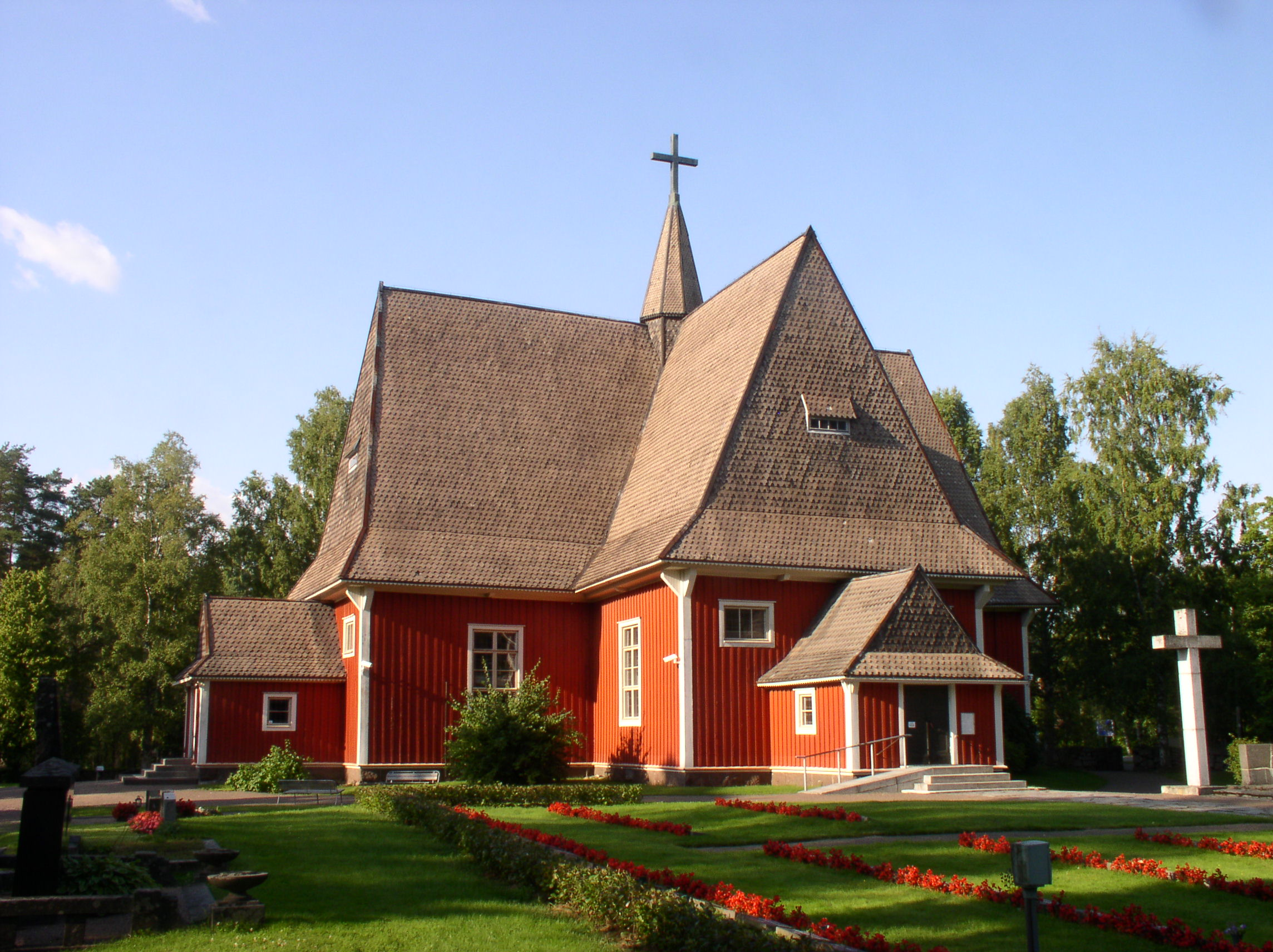 Iitti church (build 1693) in Iitti, Finland.